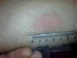 Montenegro skin reactive test for leishmaniasis. Image obtained after 48 hours after injection. The eruption increased significantly in the following hours followed by reduction in the red area.